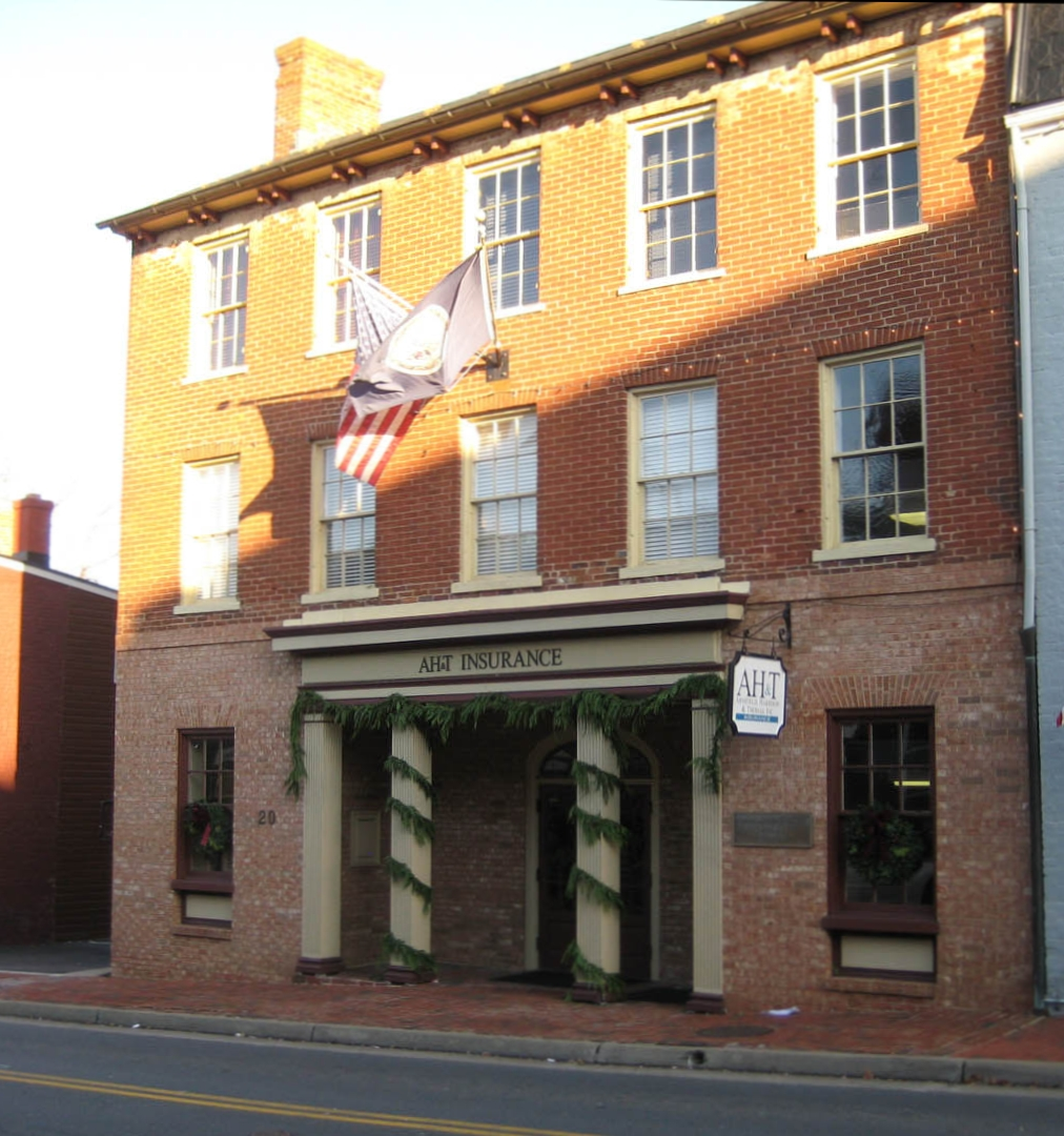 Created by Marielle Kronberg, uploaded on her behalf. Photograph of the Wheat Building in Leesburg, in December 2008.